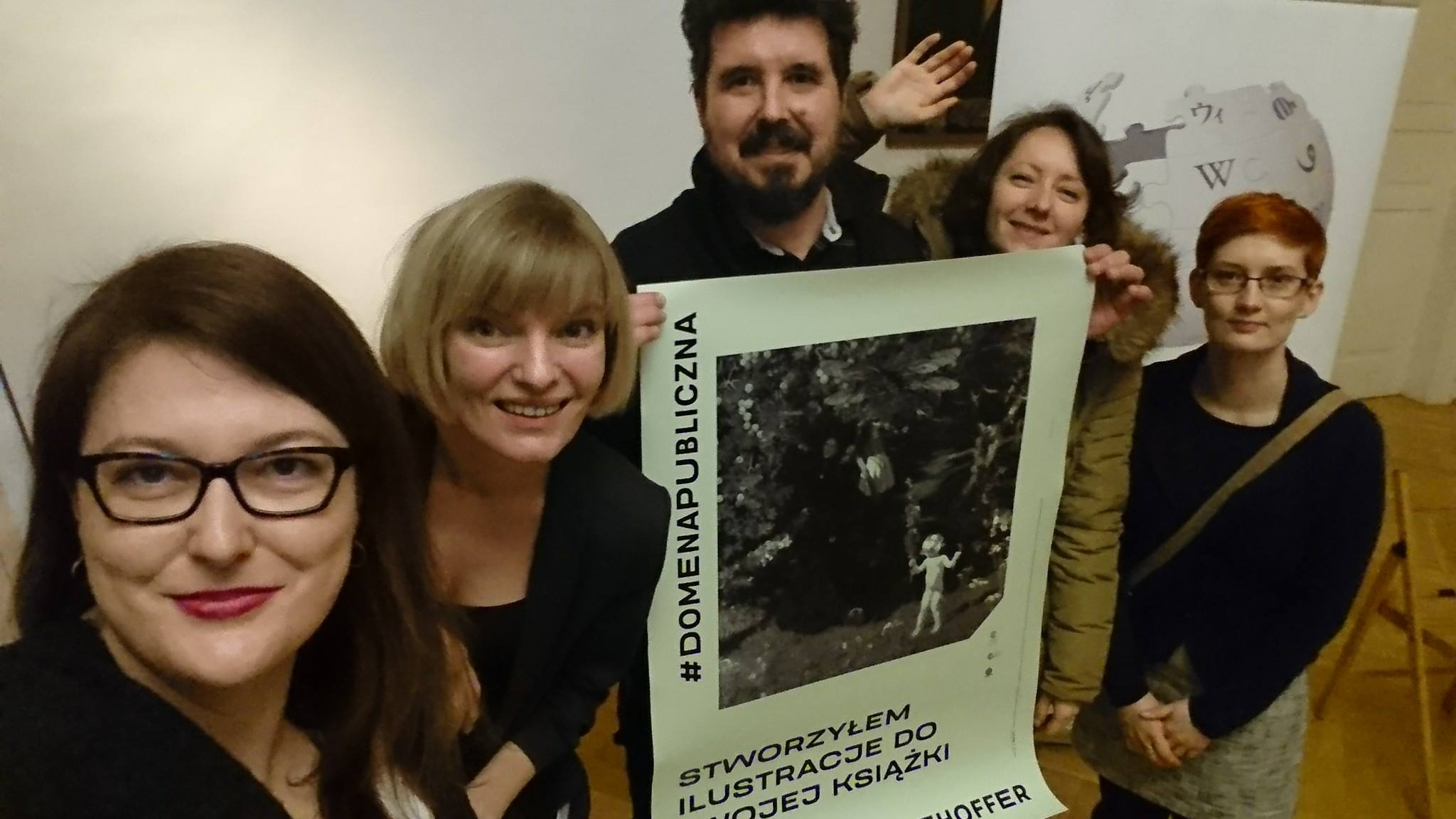 Public Domain Day 2017 (Cracow)